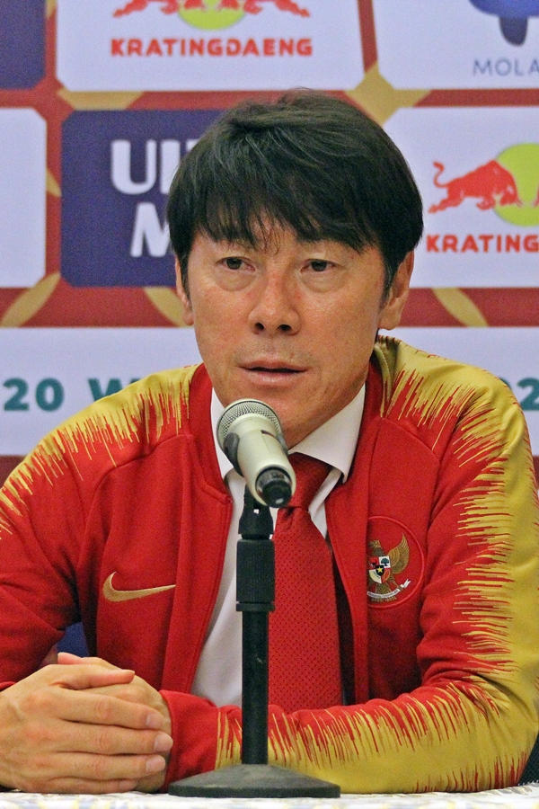 신태용 (Shin Tae-yong)